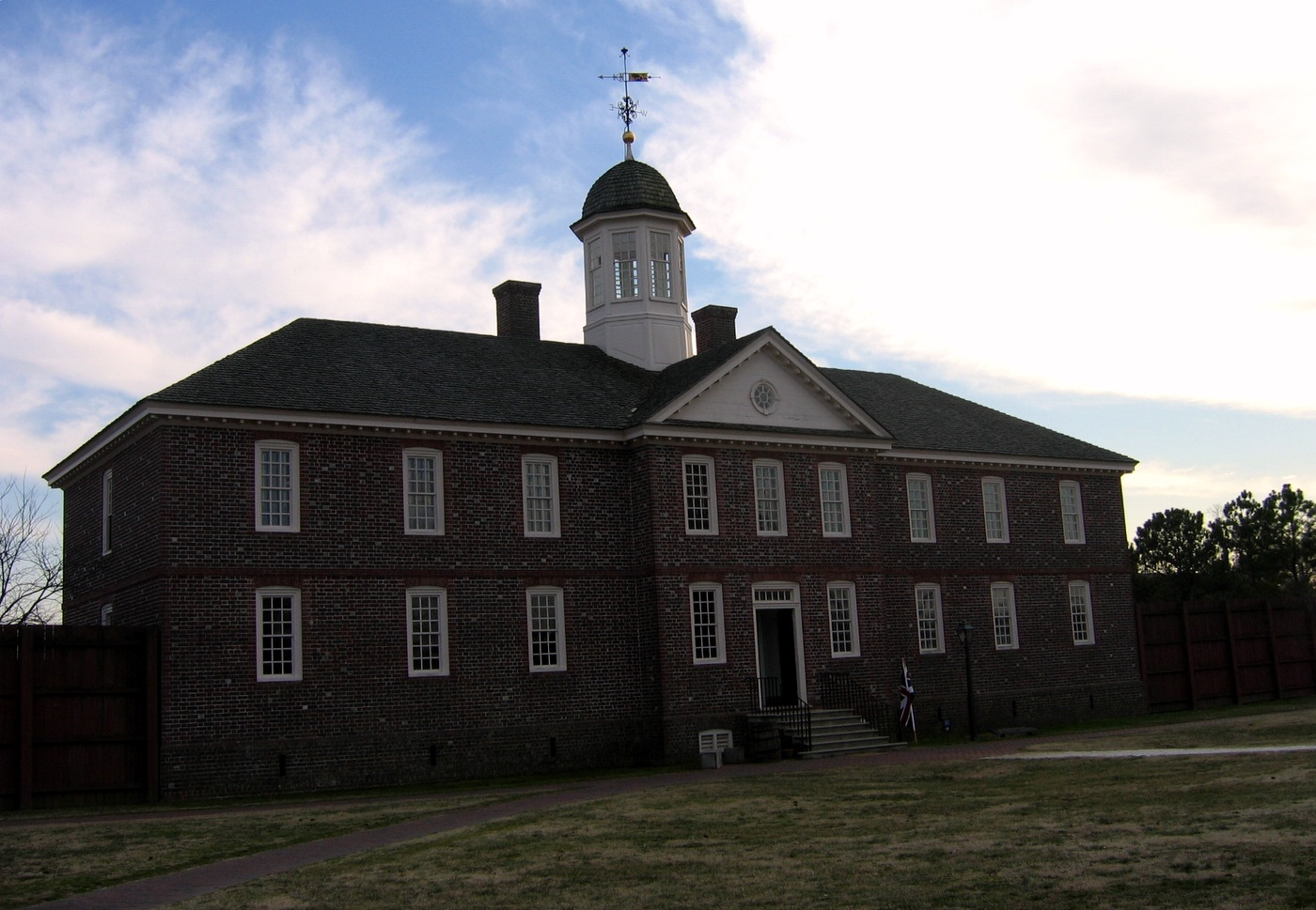 Rebuilt 1773 Public Hospital for Persons of Insane and Disordered Minds in Colonial Williamsburg; north elevation